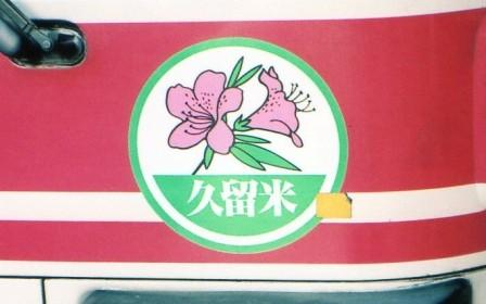 Sticker on the fleet of Nishitetsu Bus Kurume